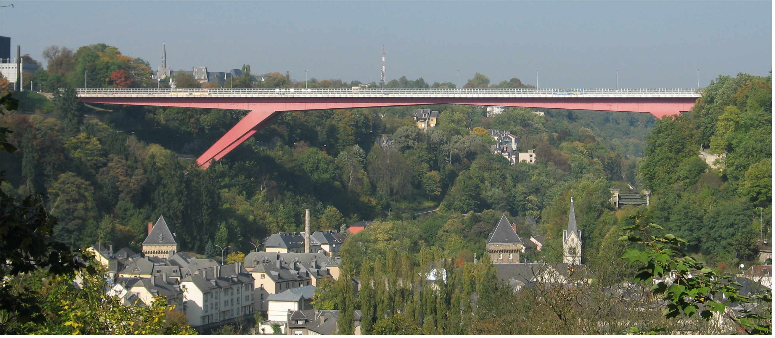 Photograph of the Grand Duchess Charlotte Bridge ('Red Bridge') in Luxembourg City, in southern Luxembourg. In the foreground is Pfaffenthal.